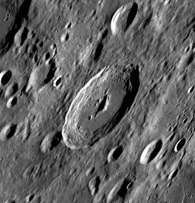 Stevinus lunar crater - LRO WAC mosaic image.